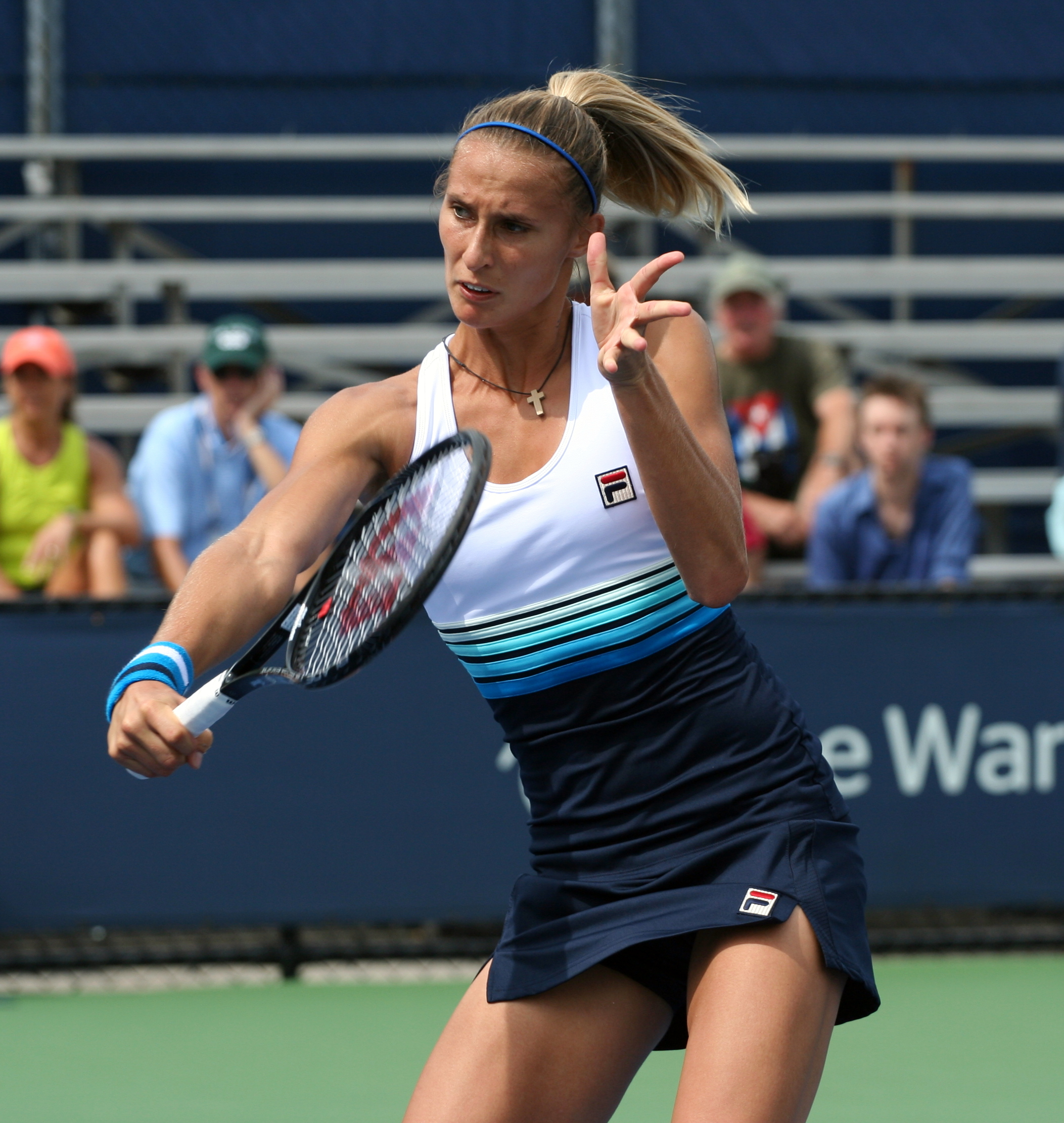 Friday, August 30